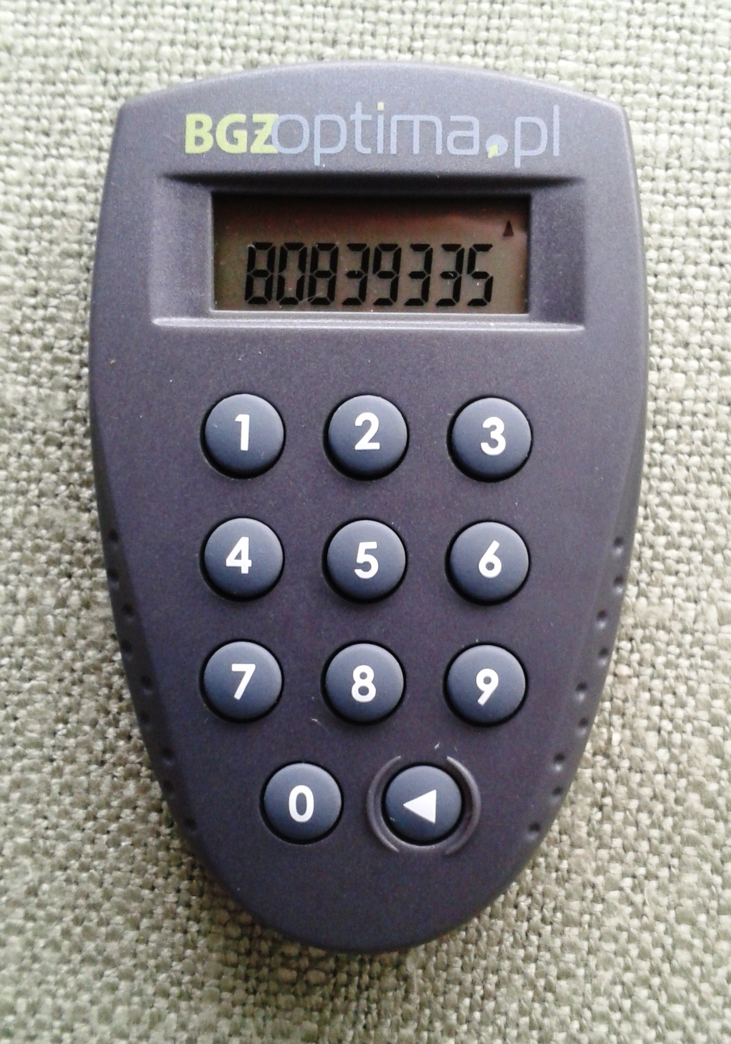 Vasco Digipass 250 Challenge-response token A example of hardware online banking authentication device